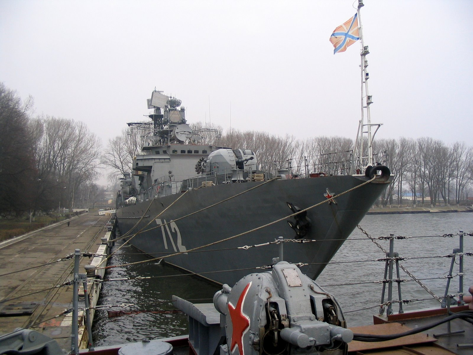 Russian guard ship «Neustrashimyi» in Baltiysk.